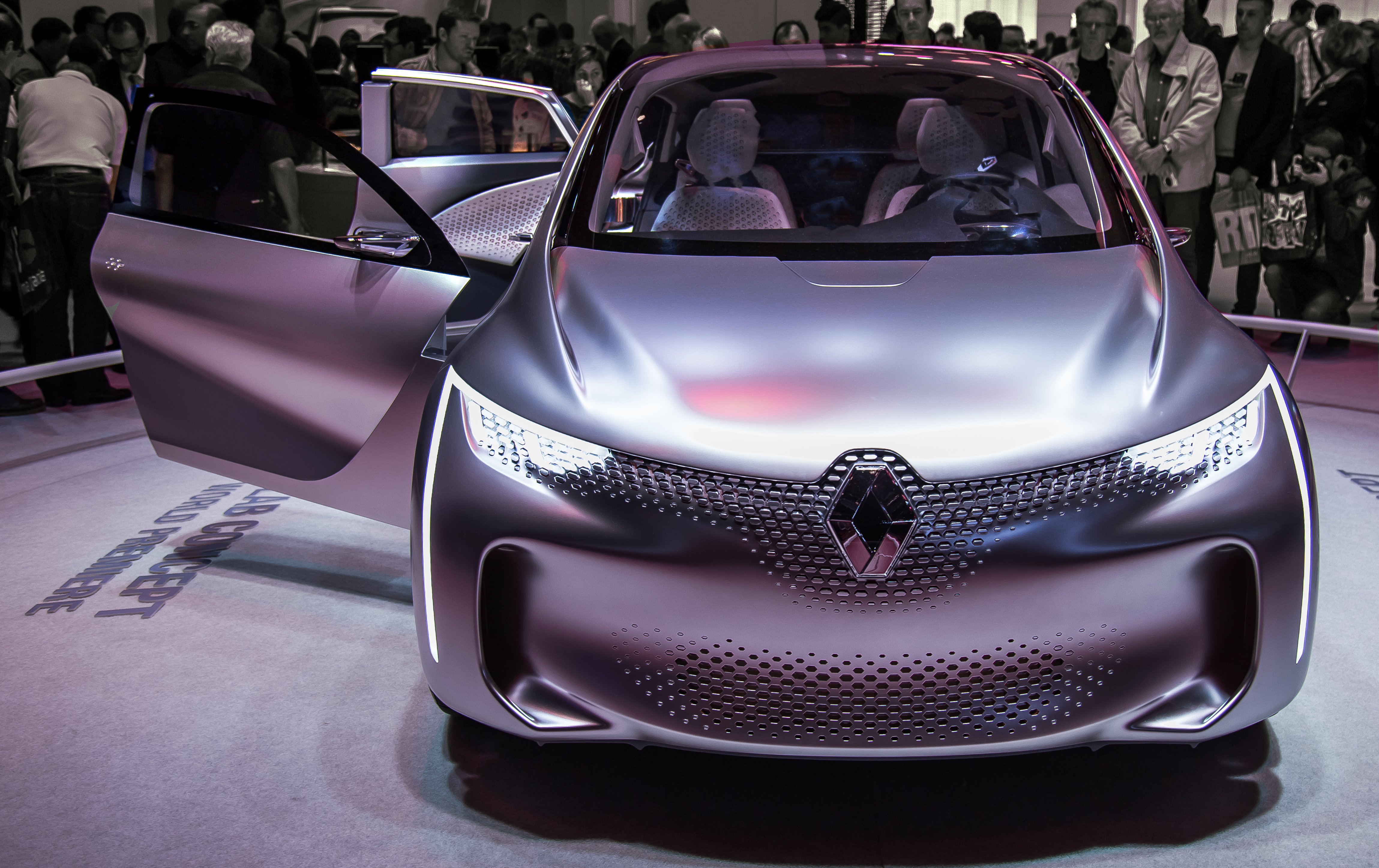 The 2014 Paris Mondial de l'Automobile or 2014 Paris Motor Show, from 4 October to 19 October, 'Automobile and Fashion' theme.